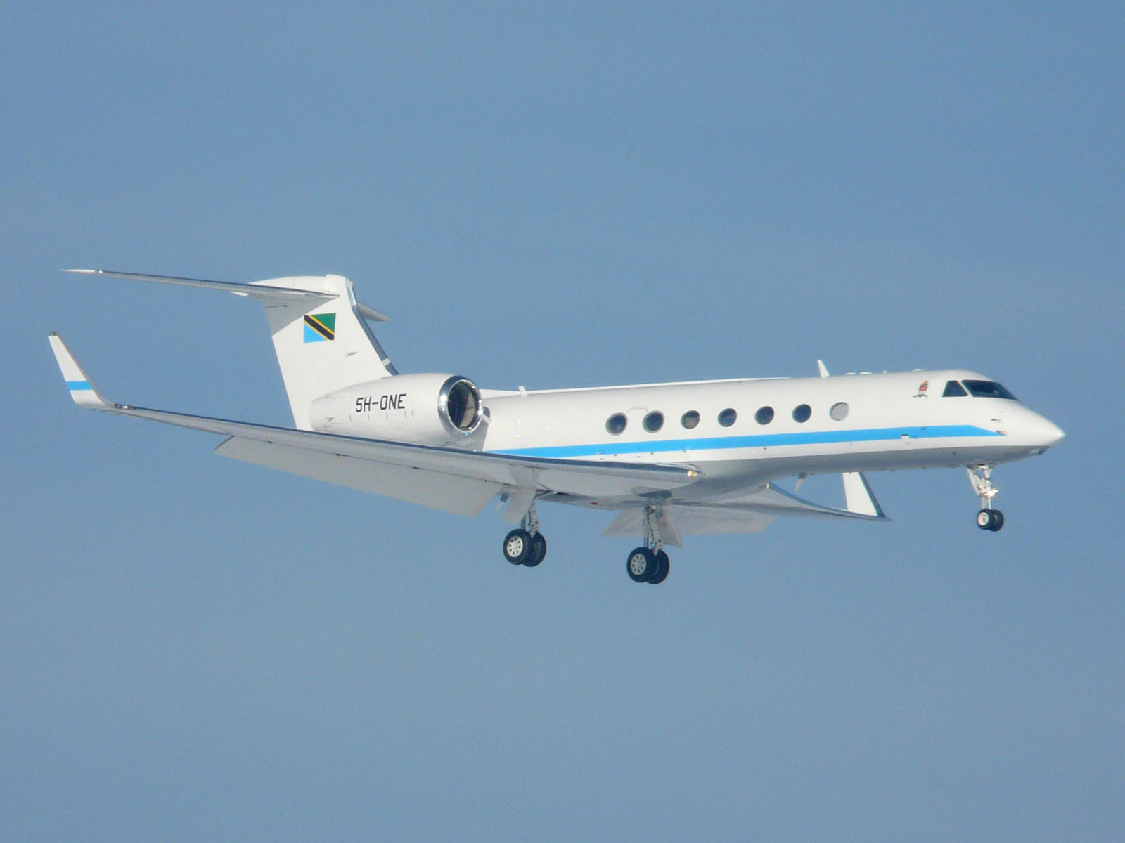 Tanzania One arriving in Zurich from Le Bourget